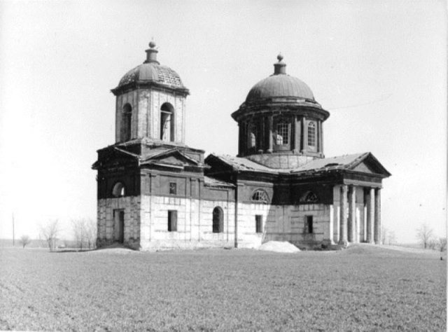 Annunciation church in Fedorivka, Poltava Oblast, 1828